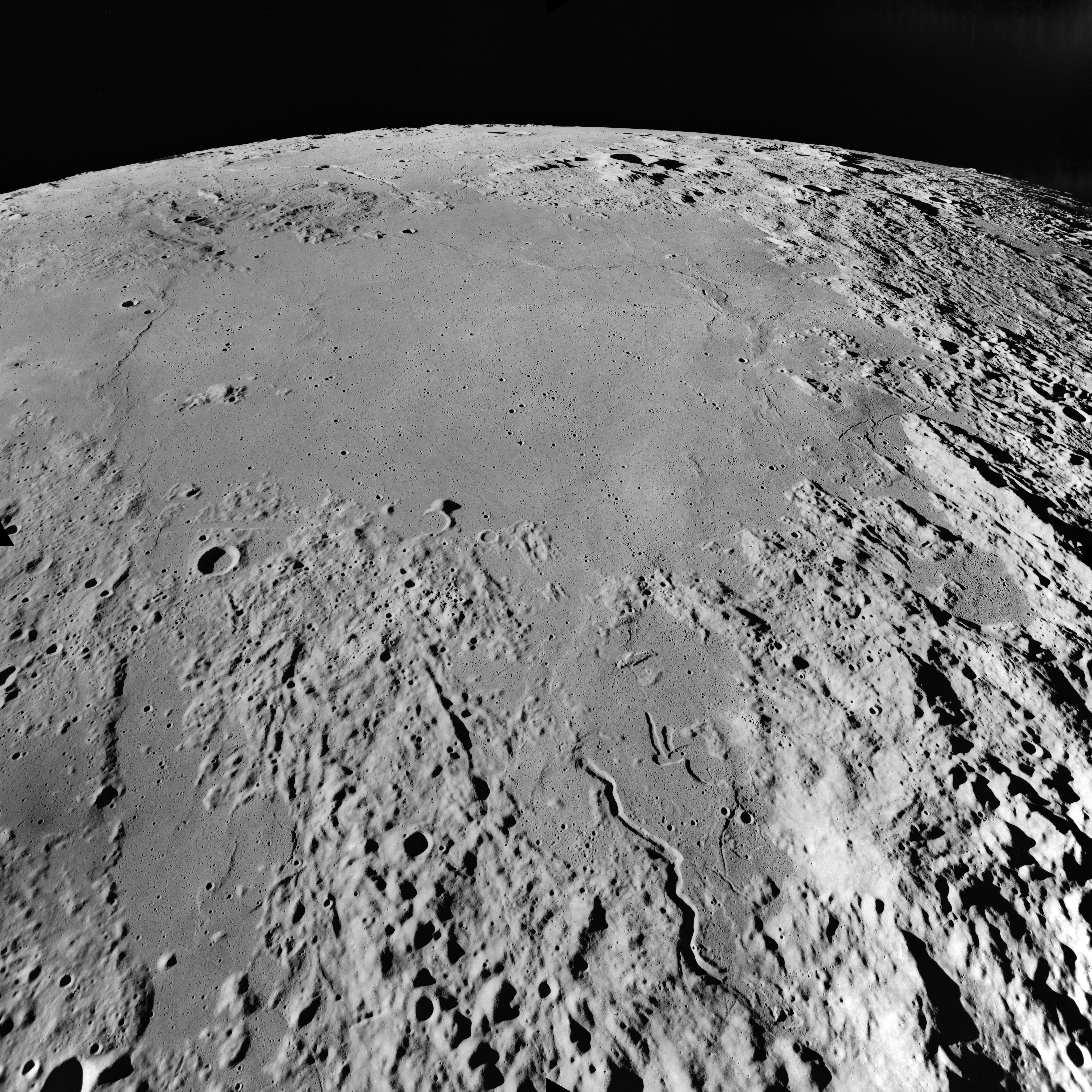 Mare Vaporum, on the moon, facing south. The low sun angle of 9 degrees accentuates topography. Taken from an altitude of approximately 104 km on Revolution 36 of the Apollo 17 mission. This is Figure 7.5 of The Geologic History of the Moon by Don E. Wilhelms, which has the following caption (modified for clarity):Terrain southeast of Imbrium basin, lying just beyond lower right corner of photograph. Circular mare in top half of photograph is Mare Vaporum, about 220 km across. Linear- and knob-textured terrae are parts of Imbrium-basin ejecta. Circularity of mare suggests that it fills a Vaporum basin or crater, which was deeply buried by Imbrium ejecta before mare flooding. Several small craters were superposed on Imbrium material before mare flooding. Graben near left-hand crater is also post-Imbrium and premare (graben is part of set possibly not related to basins). Rima Hyginus is in background. View southerly.